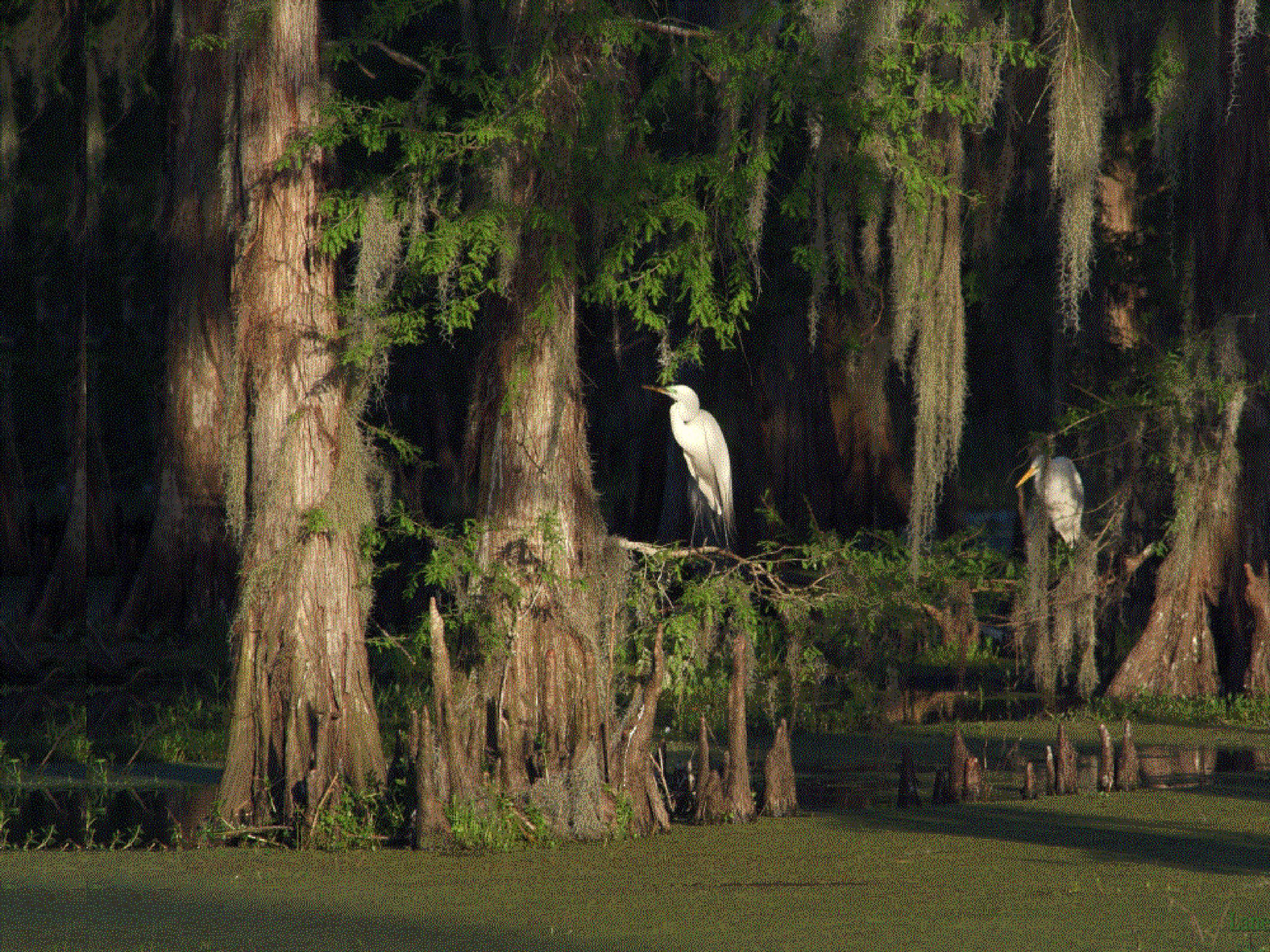 Two Egrets rest on the limbs of a cypress in the Atchafalaya flood basin (Photographer Lane Lefort, Courtesy of the U.S. Army Corps of Engineers)